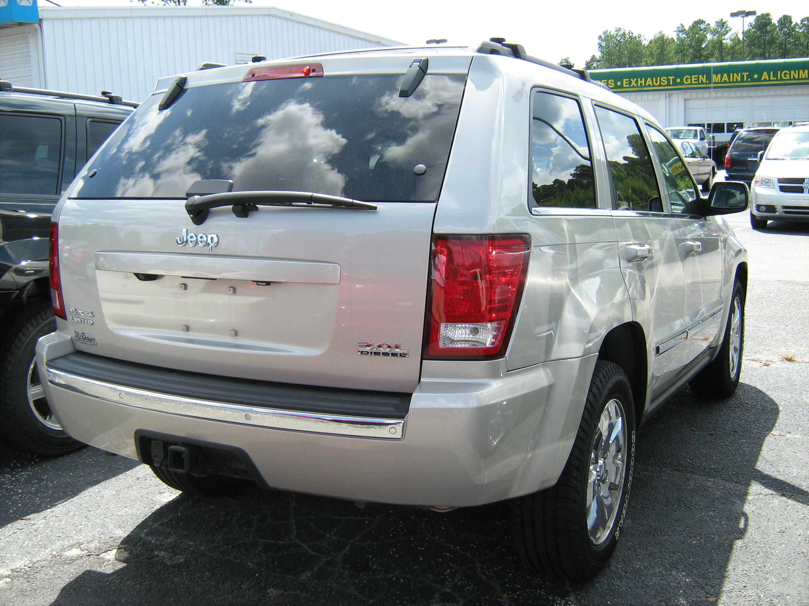 2008 Jeep Grand Cherokee 3.0 Diesel (rear insignia)